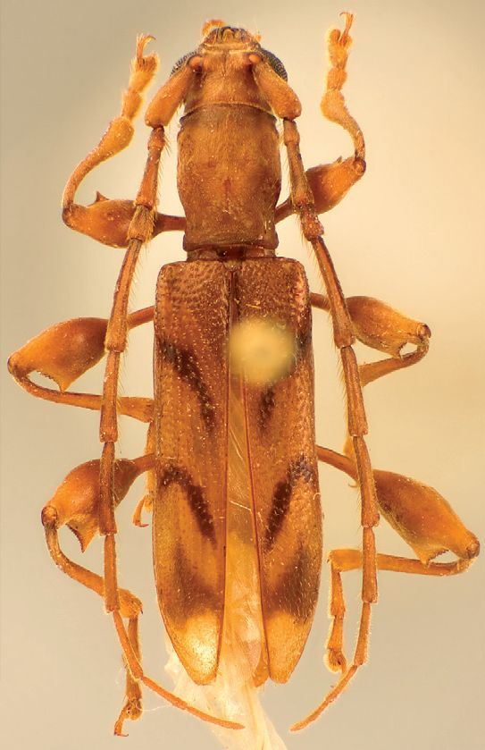 Plectrometus roncaevi, dorsal habitus of paratype male.